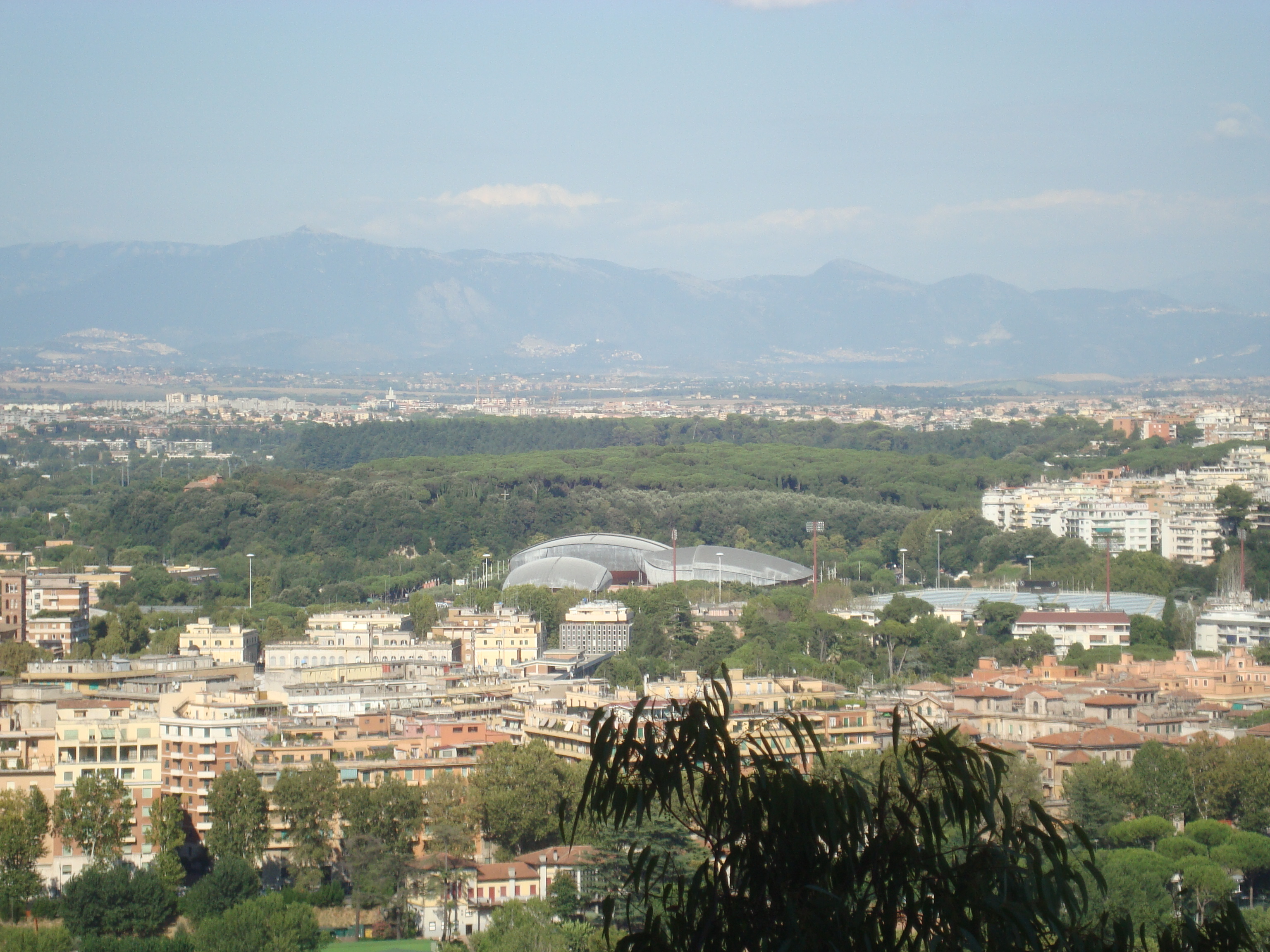 A view of the quarters Flaminio and Parioli in Rome. At the centre of the photo the Auditorium Parco della Musica and on its right the Flaminio Stadium